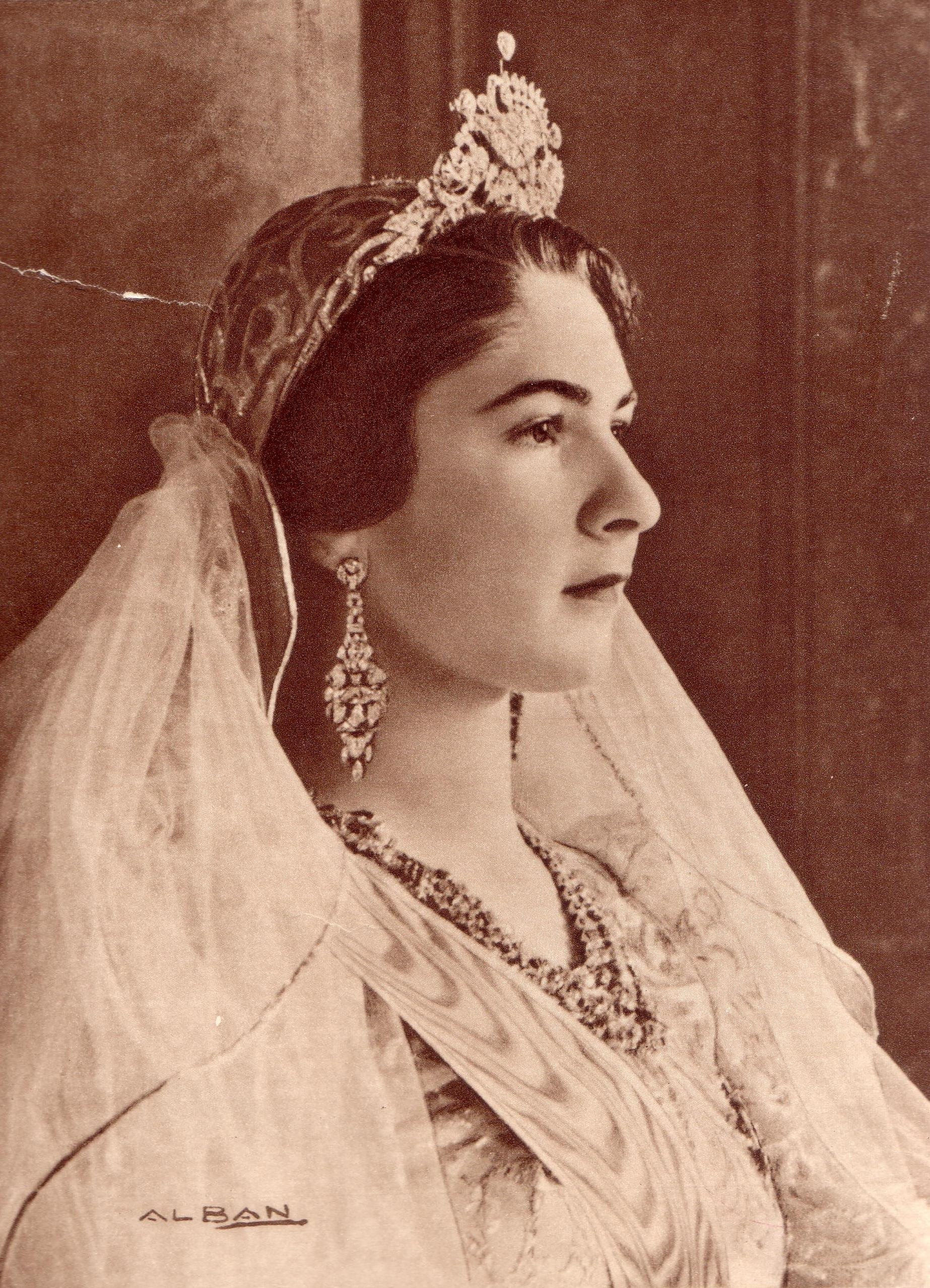 Queen Farida of Egypt, first wife of King Farouk I, official wedding picture